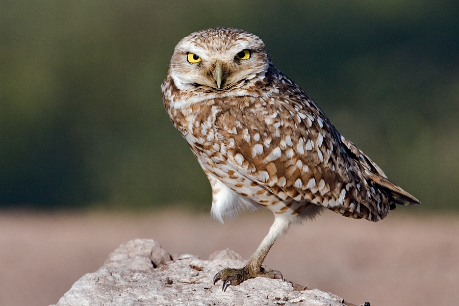 Burrowing Owl, Gentry Road, Near Niland, California